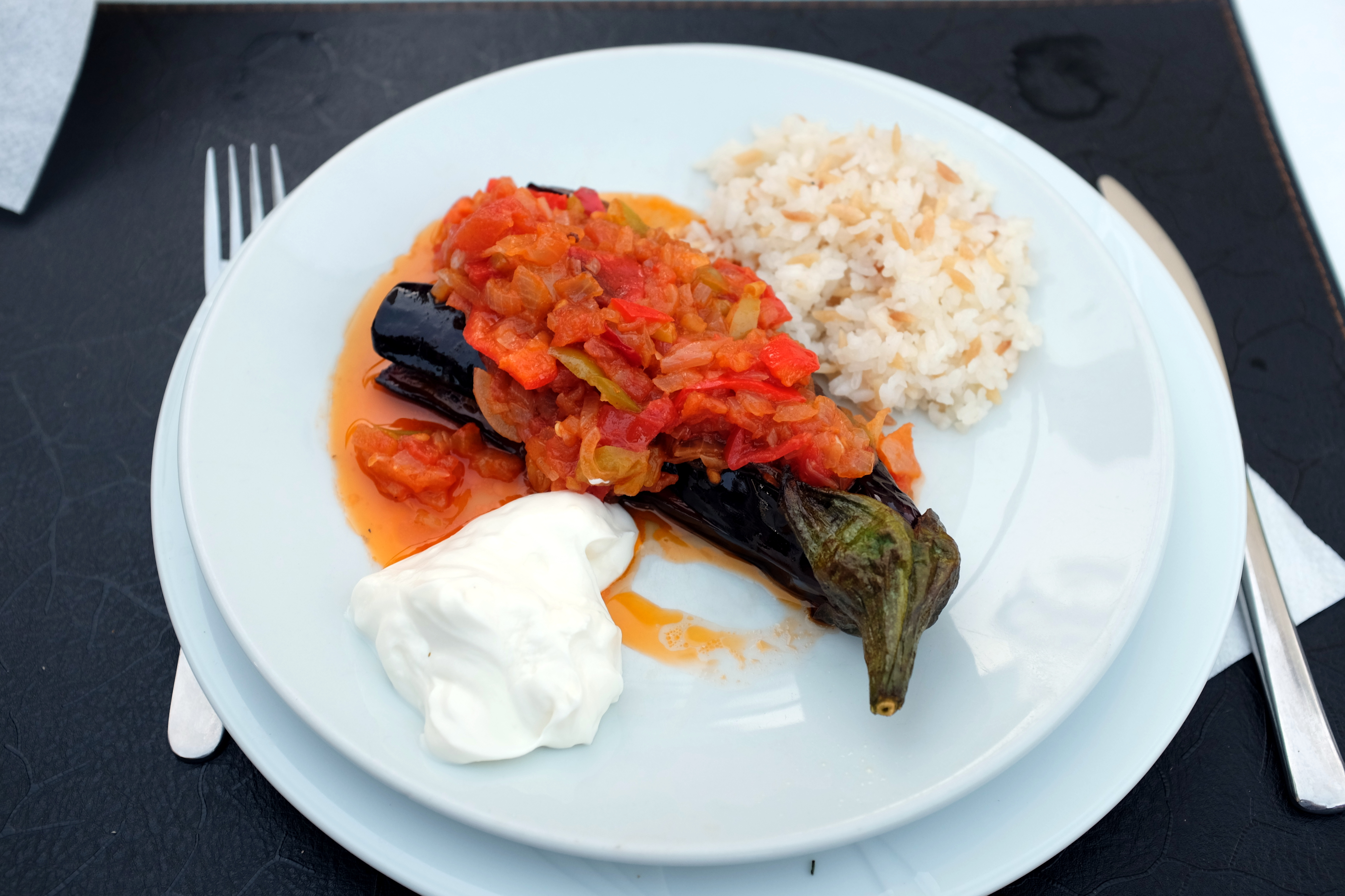 İmam bayıldı with yoghurt and rice. From a restaurant in Selçuk, Turkey.